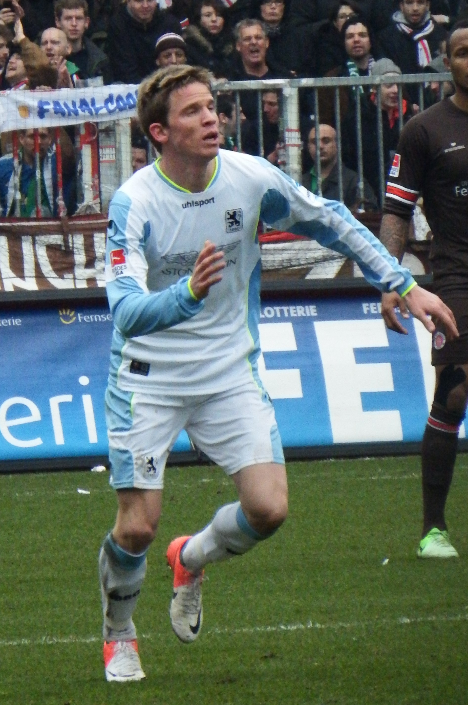 Marin Tomasov as Player of TSV 1860 München